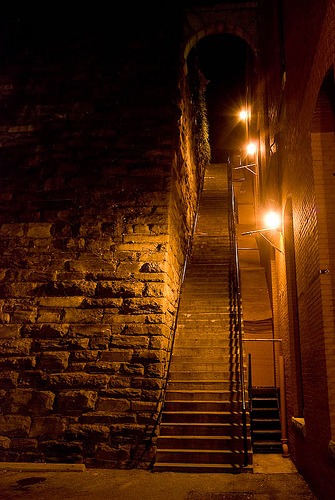 20081017-DSC_0049, The Exorcist Steps, Washington, D.C.